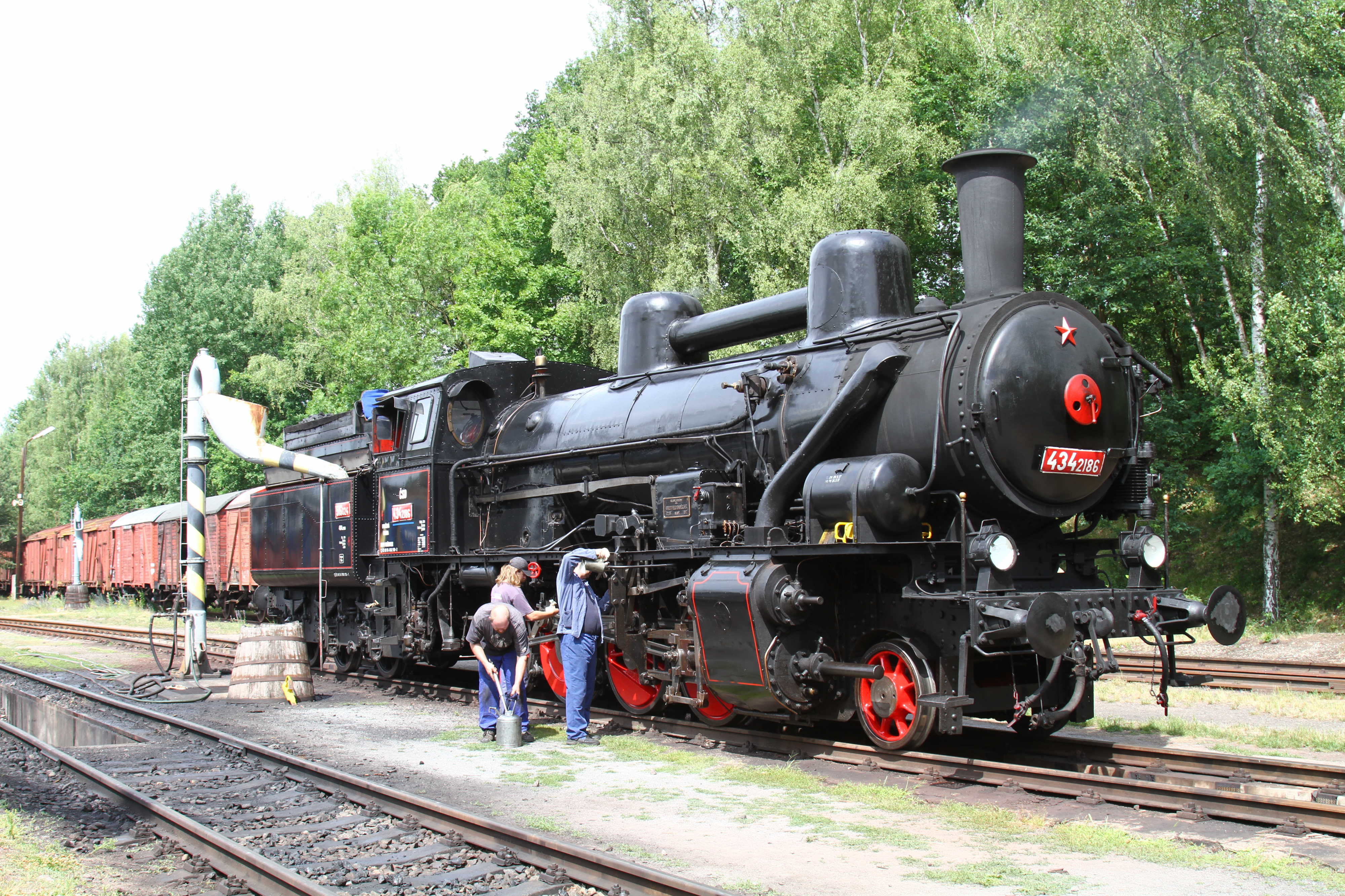 ČSD 434.2186 at Lužná u Rakovníka railway museum